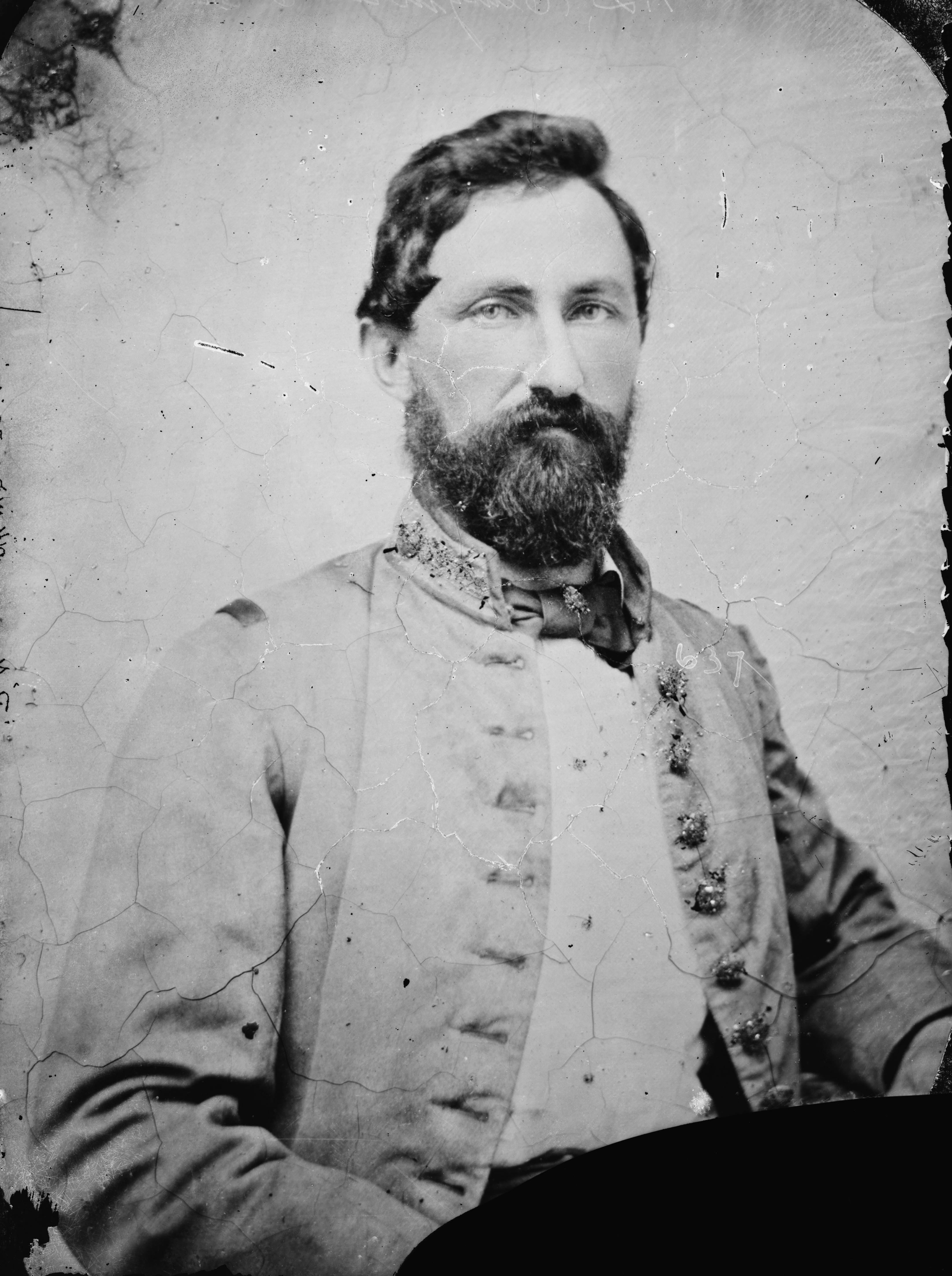 William Lewis Cabell. Library of Congress description: "Cabell, Gen. W.L."